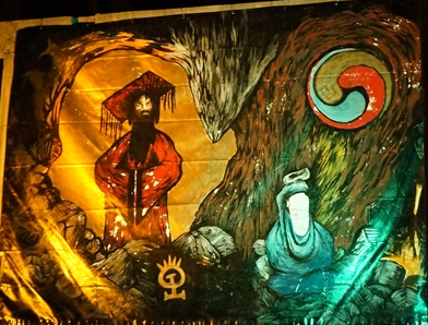 Location: Koh Phangan, Thailand, "Meridien Khao Tam" tea house, ordered by me after inspiration of story; firstly posted by me